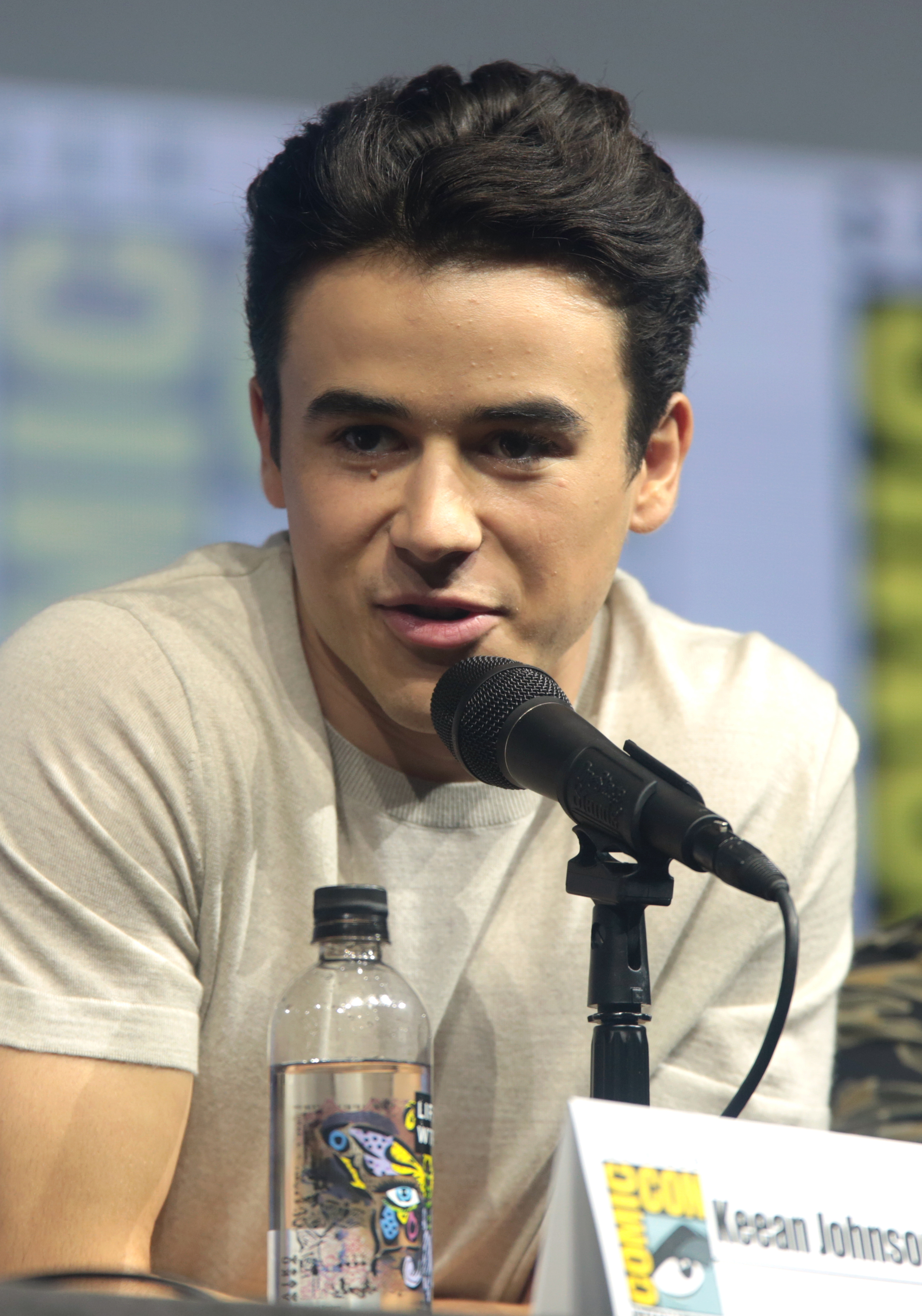 Keean Johnson speaking at the 2018 San Diego Comic-Con International in San Diego, California.